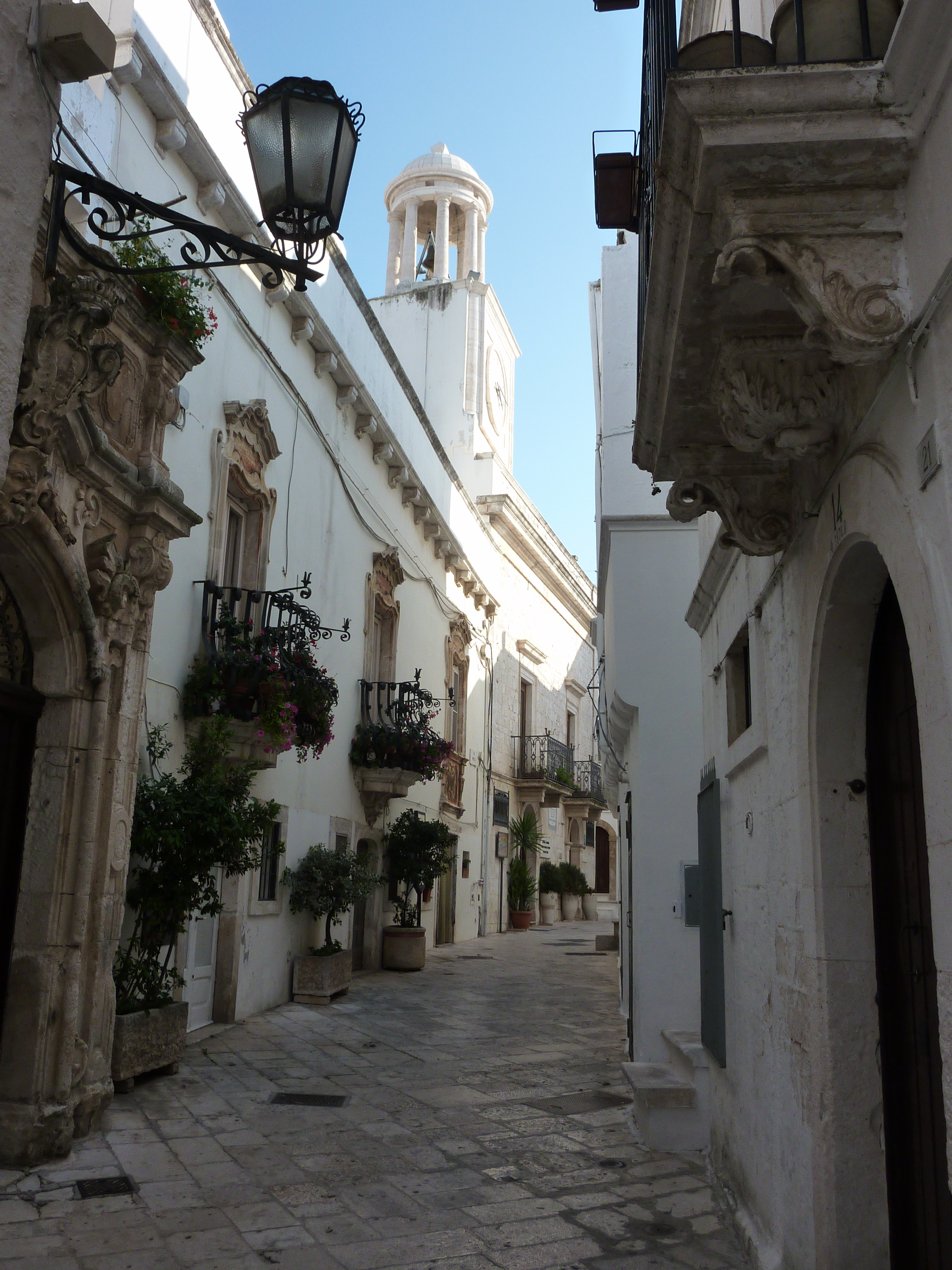 Street in the center of Locorotondo, with the clock tower in the background